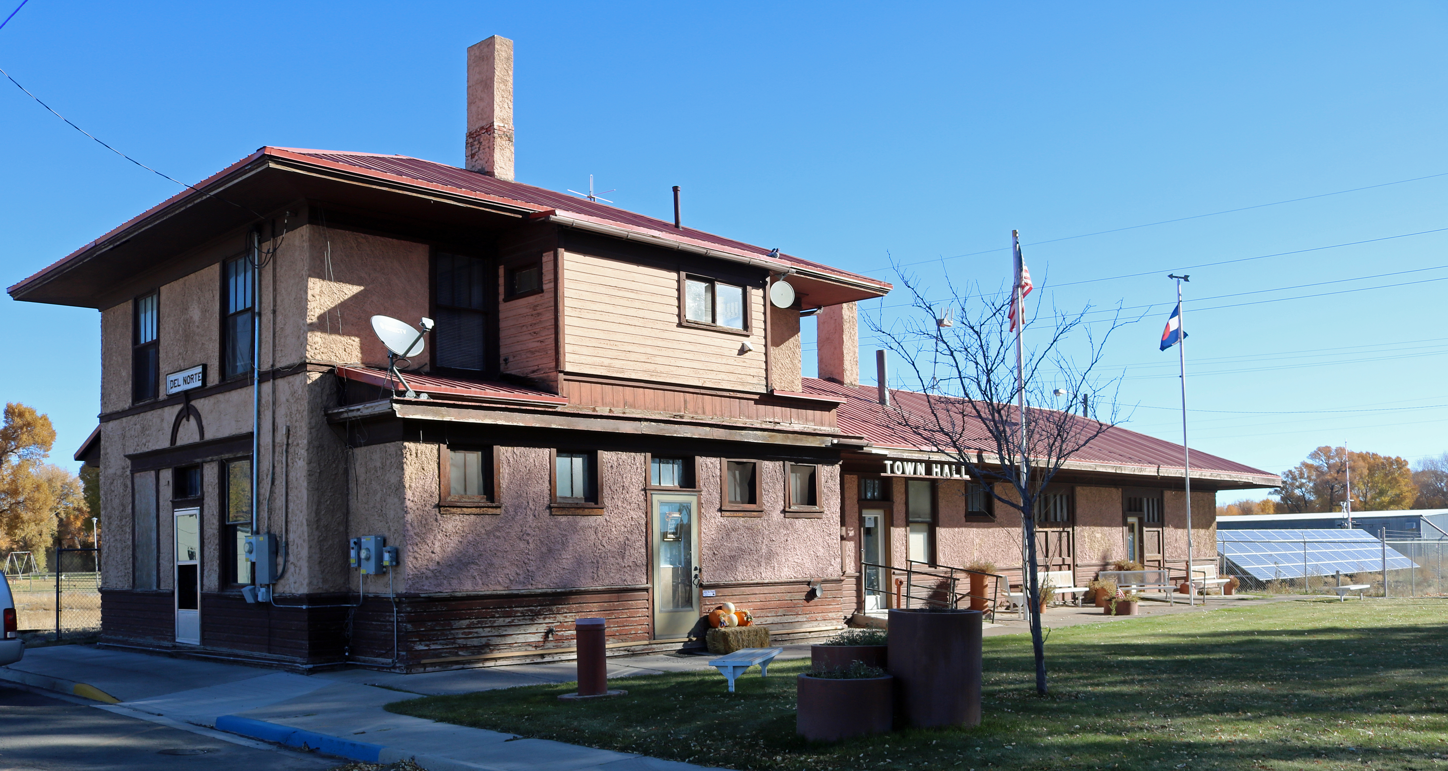 The town hall of Del Norte, Colorado. It is located at 140 Spruce Street in Del Norte, Colorado. It is a former depot of the Denver and Rio Grande Western Railroad.